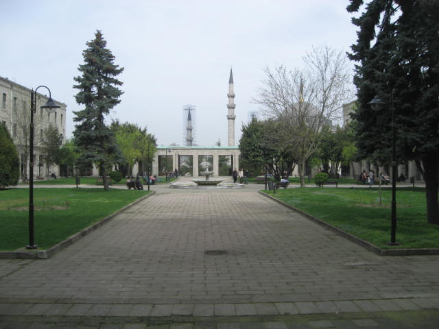 Istanbul University campus